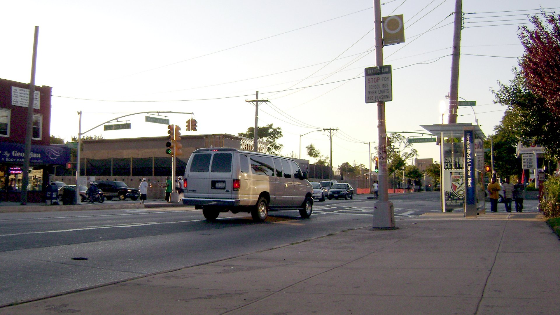 Looking towards the intersection of Merrick Boulevard and Linden Boulevard in Addisleigh Park, Queens, New York.